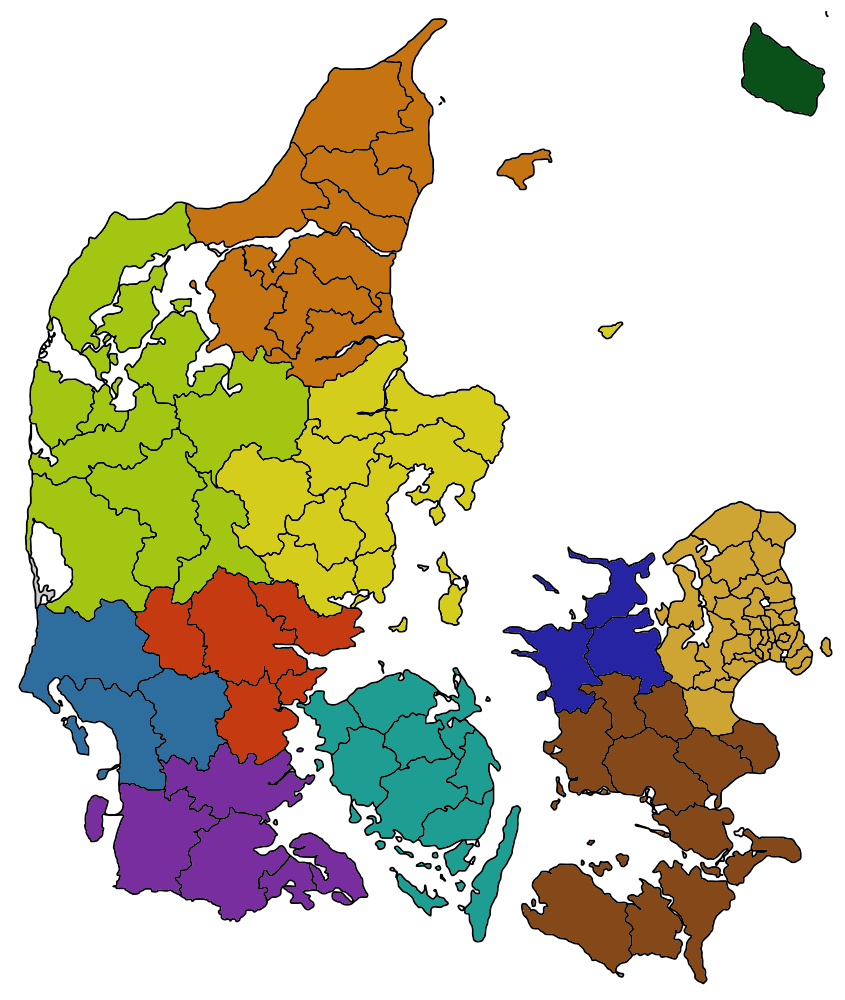 Districts of Denmark's public broadcasting serivice, DR